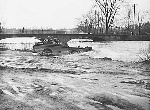 Ford GPA Sea jeeps. The Army's most flexible new machine of the war, a Ford-built amphibian reconnaissance car, carrying soldiers equipped for combat duty takes to the water in special tests staged recently in the Detroit area. This picture shows how the new transportation arm propelling itself as a boat to the opposite shore. The boat steers in the water the same as on land.